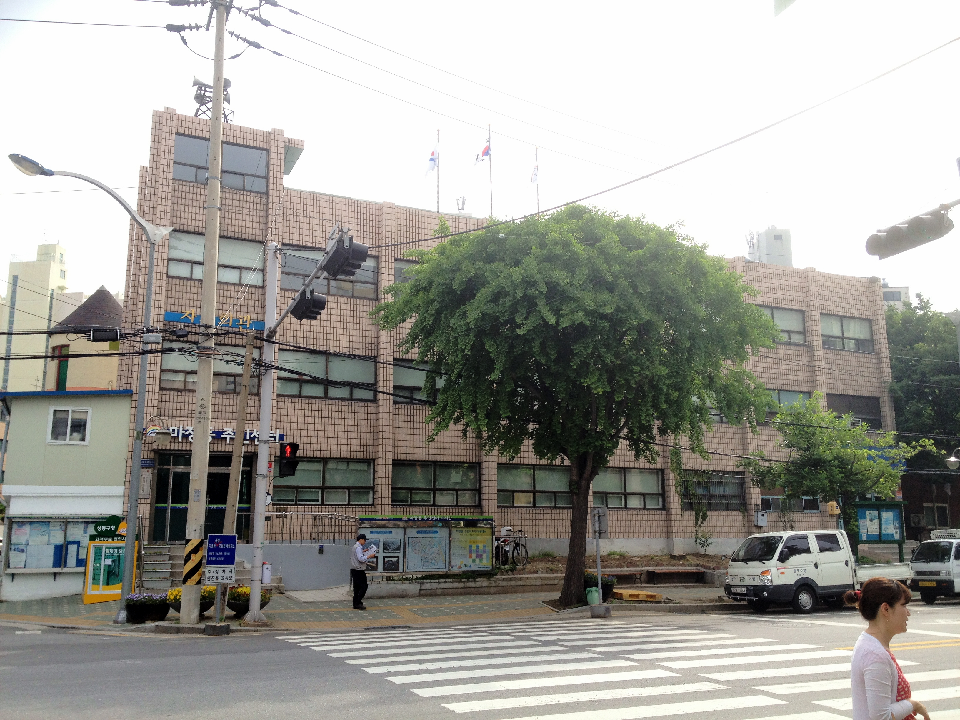 Majang-dong Comunity Service Center(Seongdong-gu)